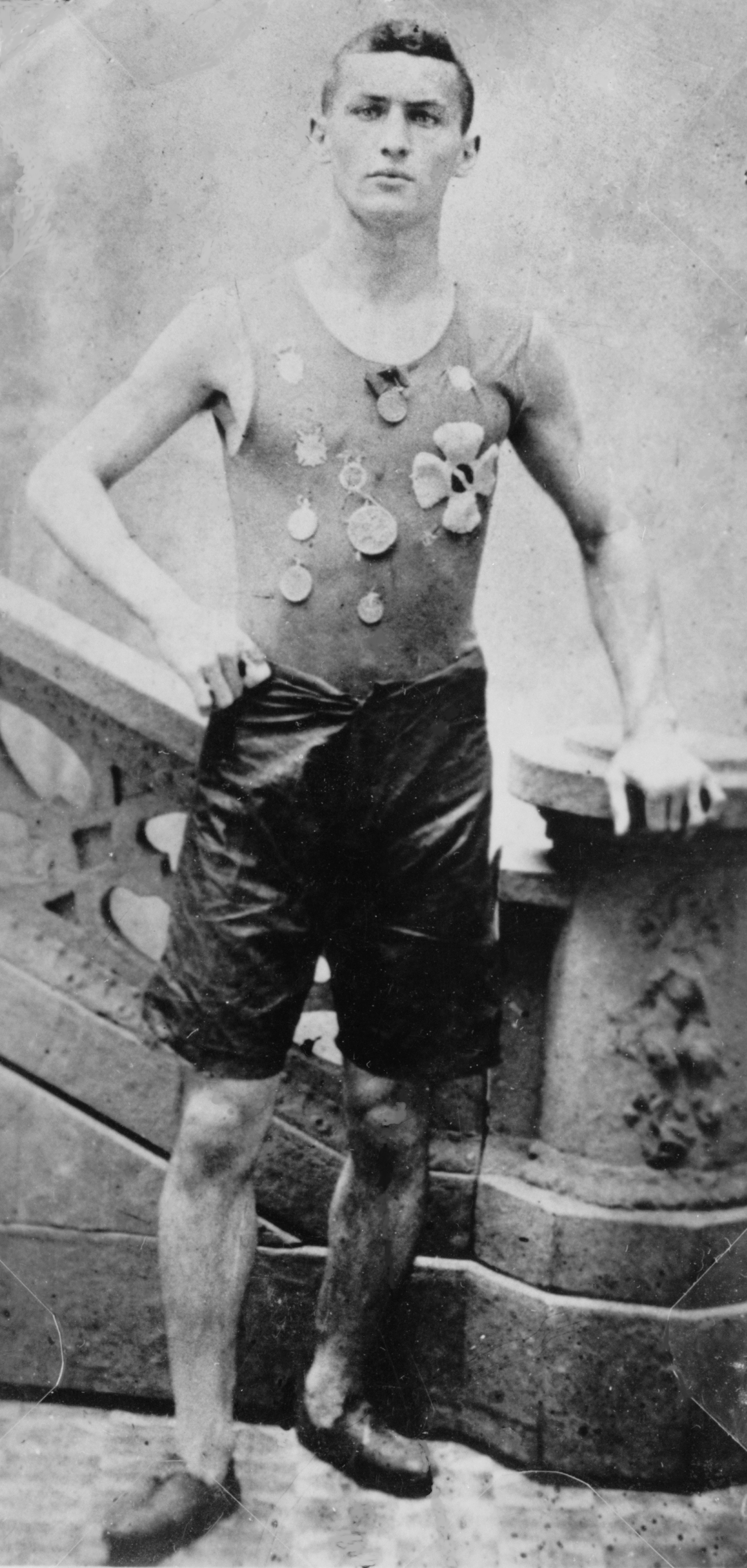 Not yet Houdini, Ehrich Weiss is shown exhibiting his competitive spirit and wearing medals he won as a member of the Pastime Athletic Club track team in New York. Many of the medals had been borrowed to make him look grander.